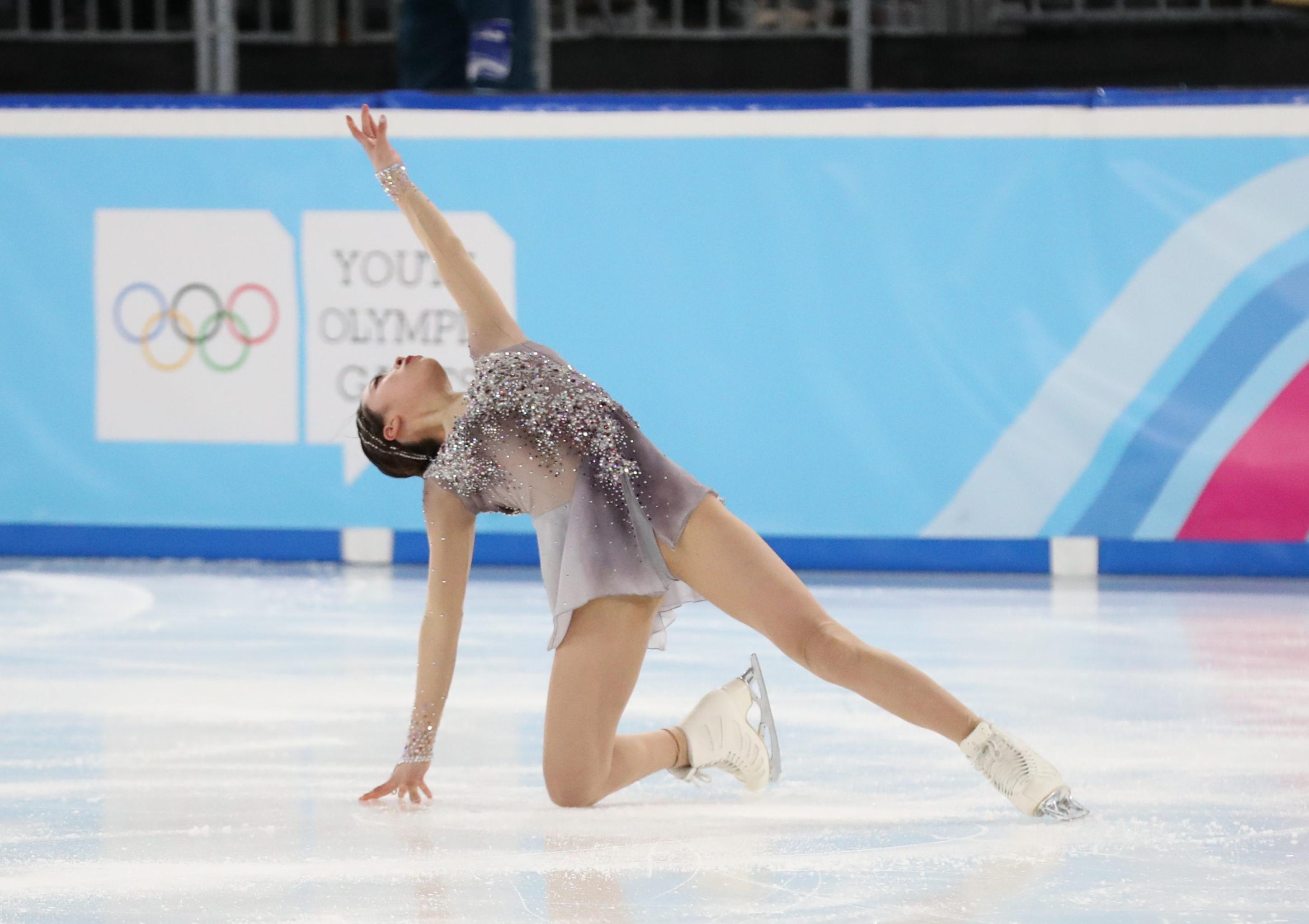 Women Single Figure Skating Short Program at the 2020 Winter Youth Olympics in Lausanne